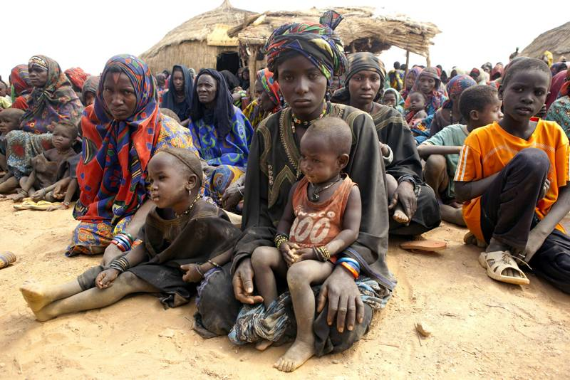 Malian refugee women wait with their children to receive relief items from UNHCR in Gaoudel, Ayorou district, northern Niger.